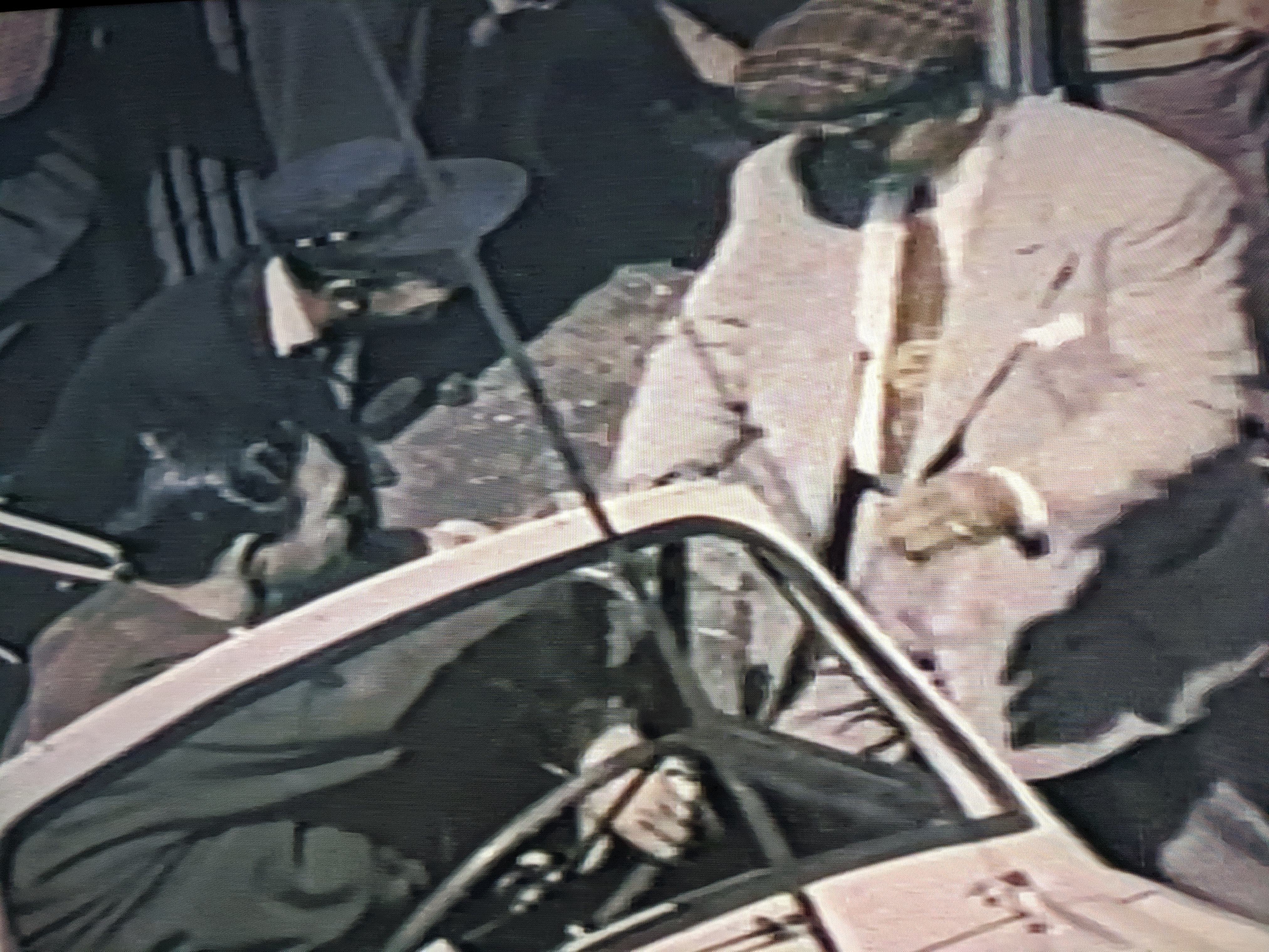 James Melton at Watkins Glenn